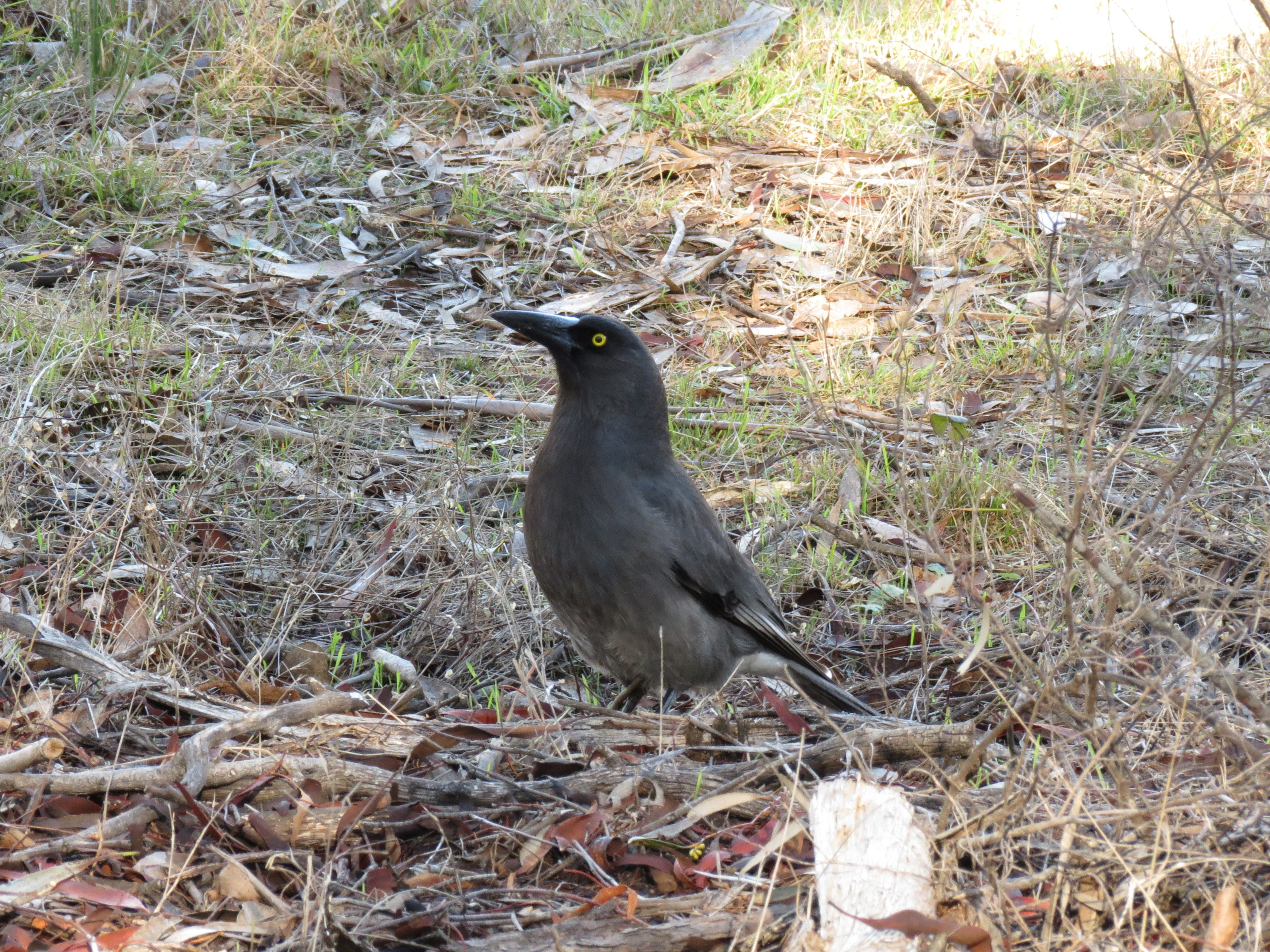 Strepera versicolor (Latham, 1801), Grey Currawong, Aranda Bushland, ACT, 16 June 2013